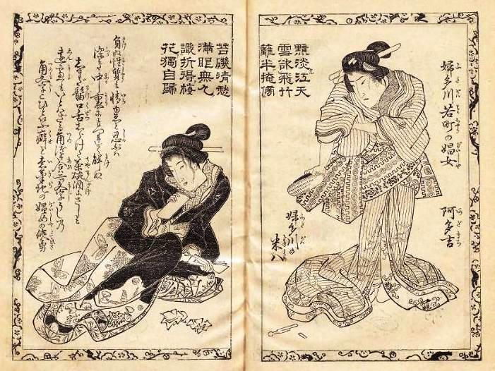 Illustrated Yonehachi and Adakichi from "Shunshoku Umegonomi"written by Tamenaga Shunsui in 1832 - 1833, Japan